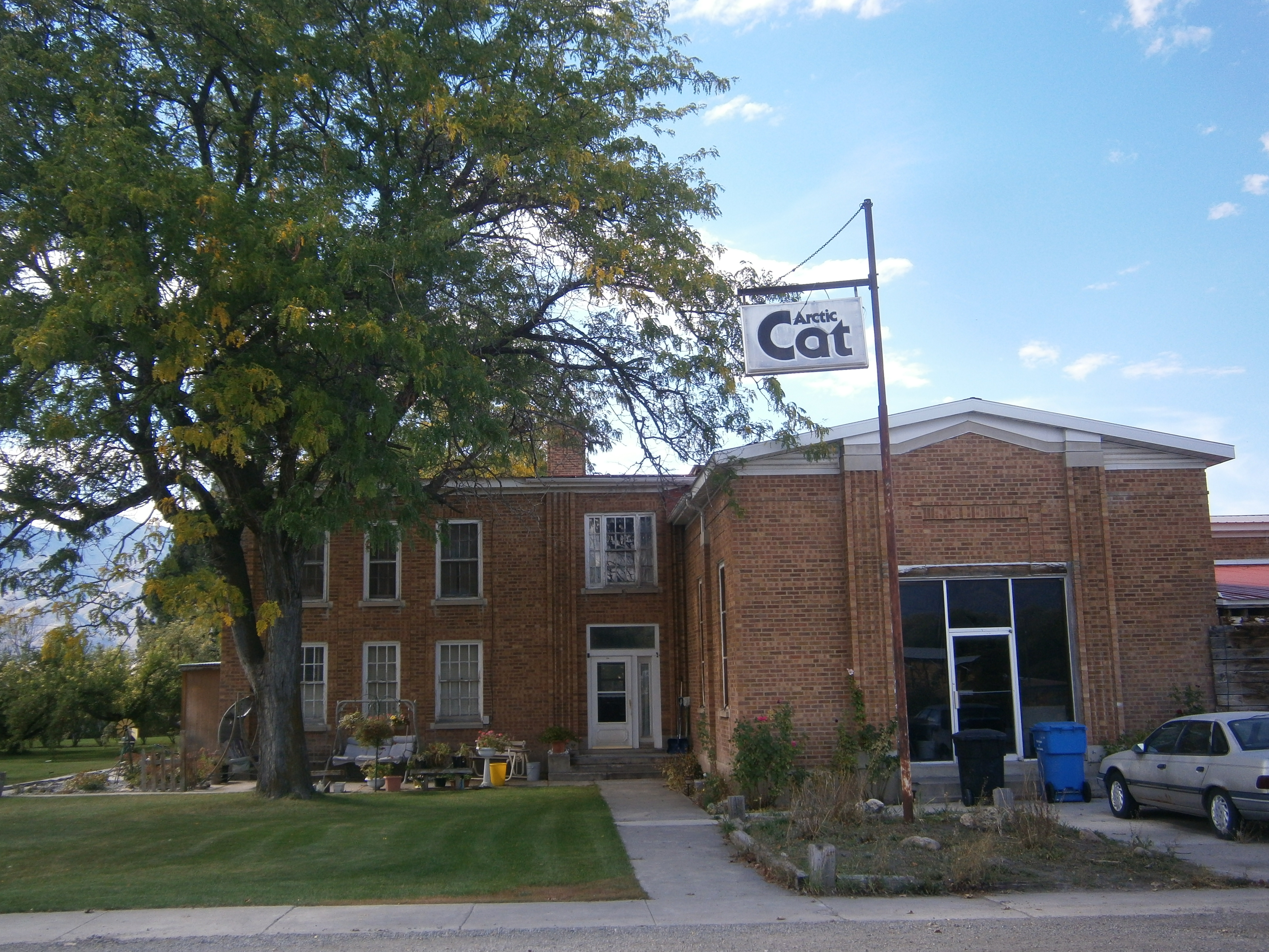 Built in 1940 as a meetinghouse of The Church of Jesus Christ of Latter-day Saints, this building is a landmark in the community of College Ward, Utah, United States.